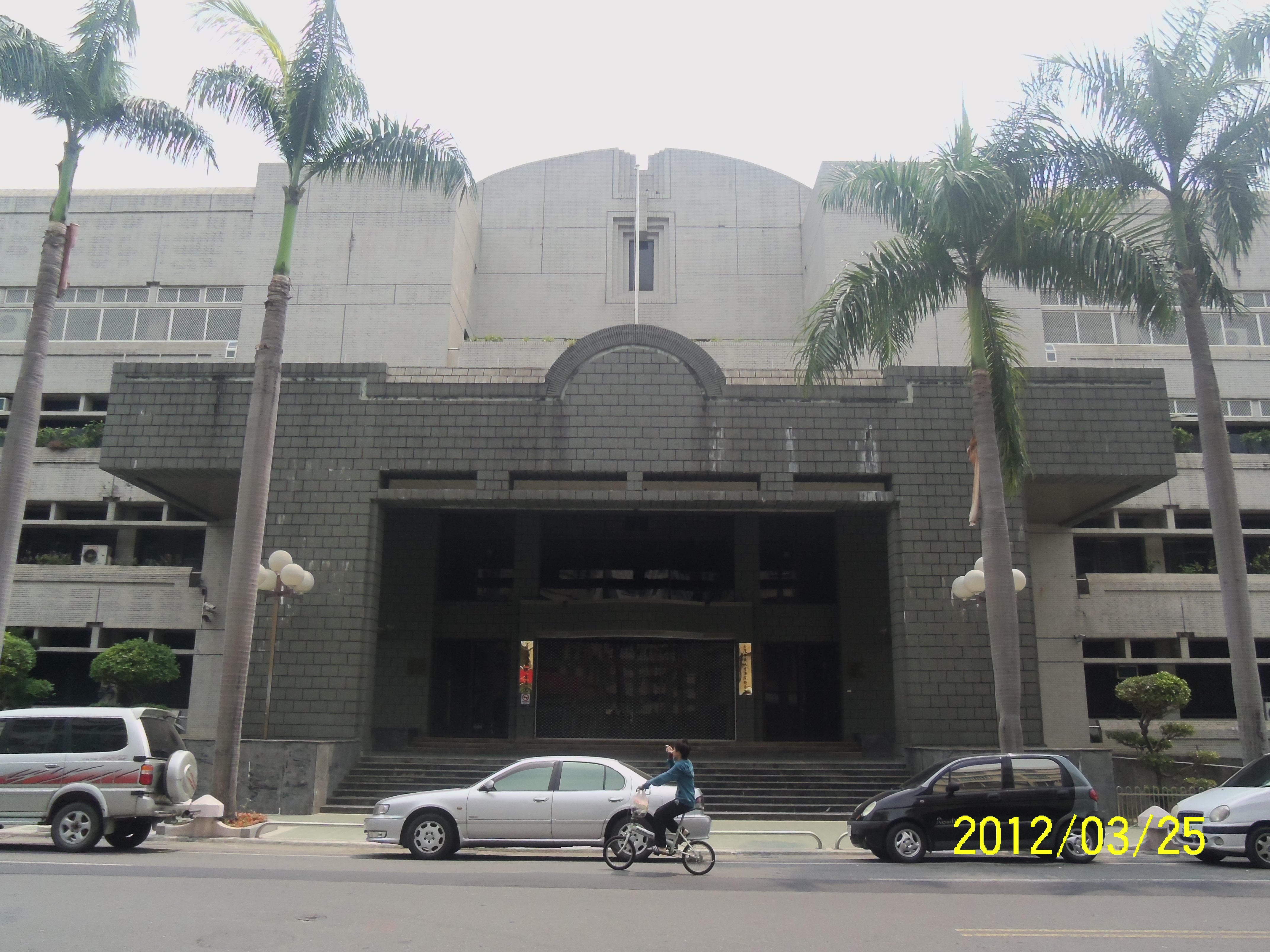 Taiwan Pingtung District Court中文（台灣）: 臺灣屏東地方法院